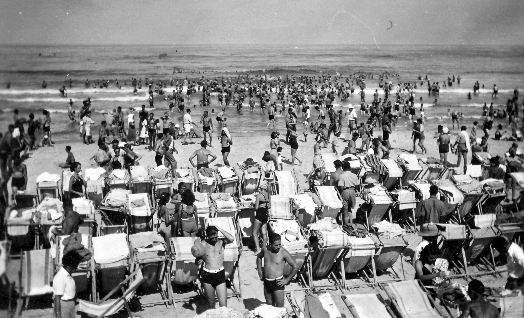 Tel Aviv Beach 1940